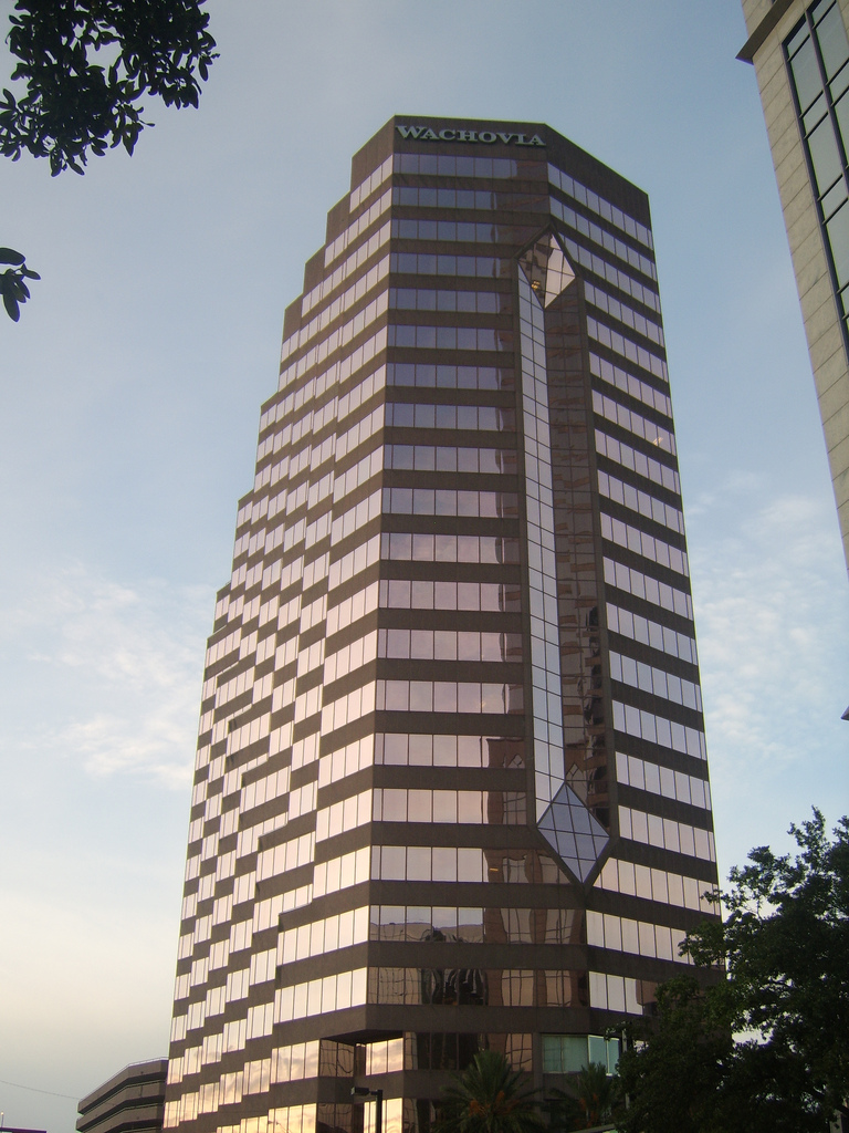 Office building in downtown Tampa florida